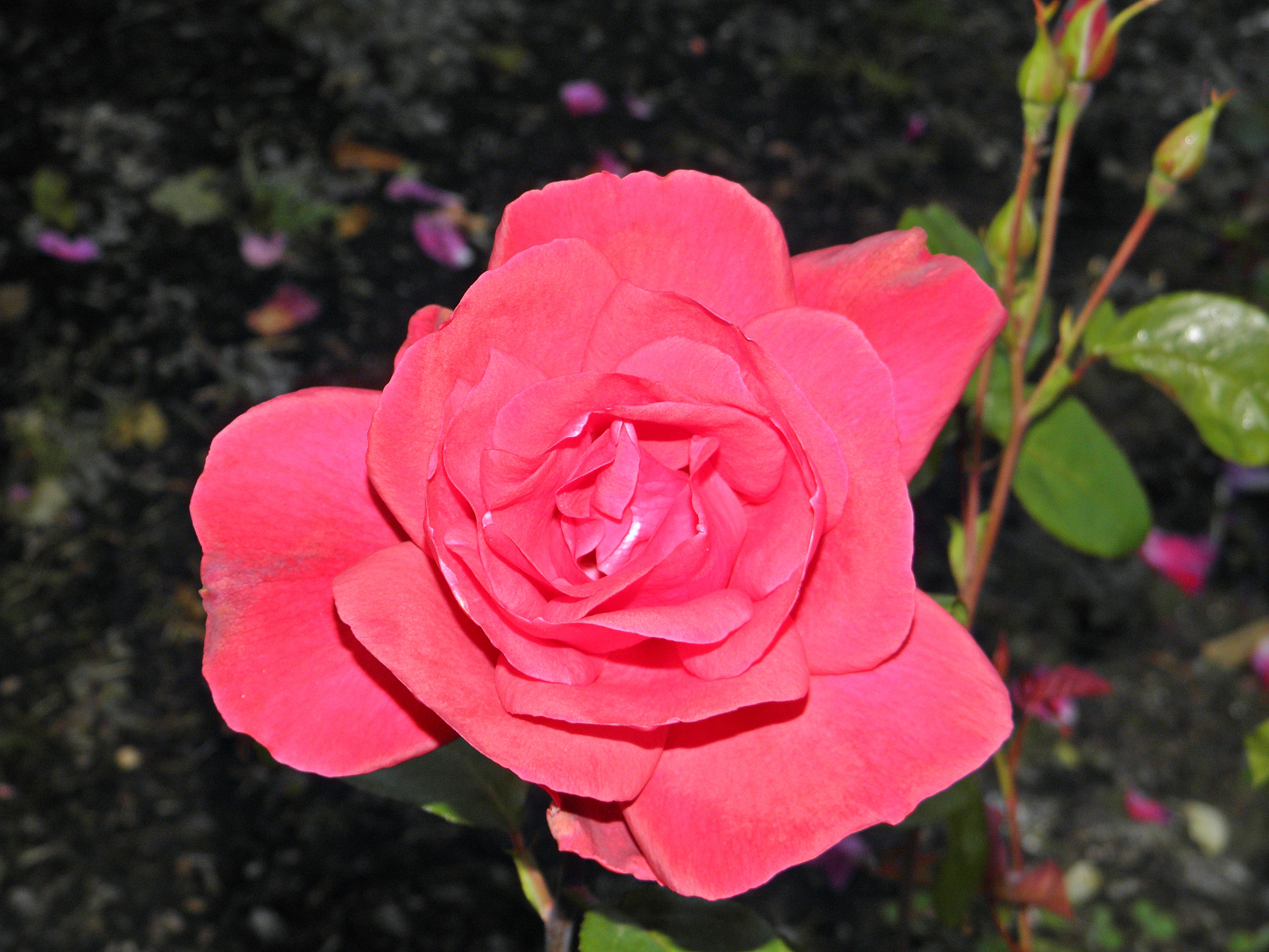 Grandiflora Rose 'El Capitan'; Bush's Pasture Park Rose Garden, Salem, Or. 97301